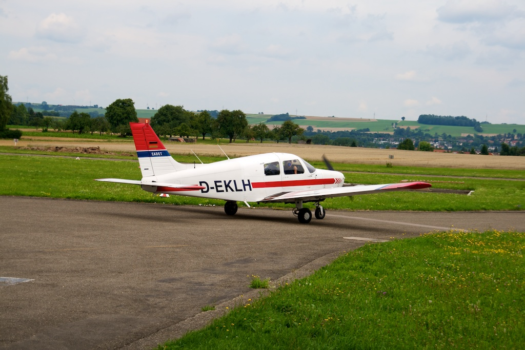 PA-28-161 Cadet